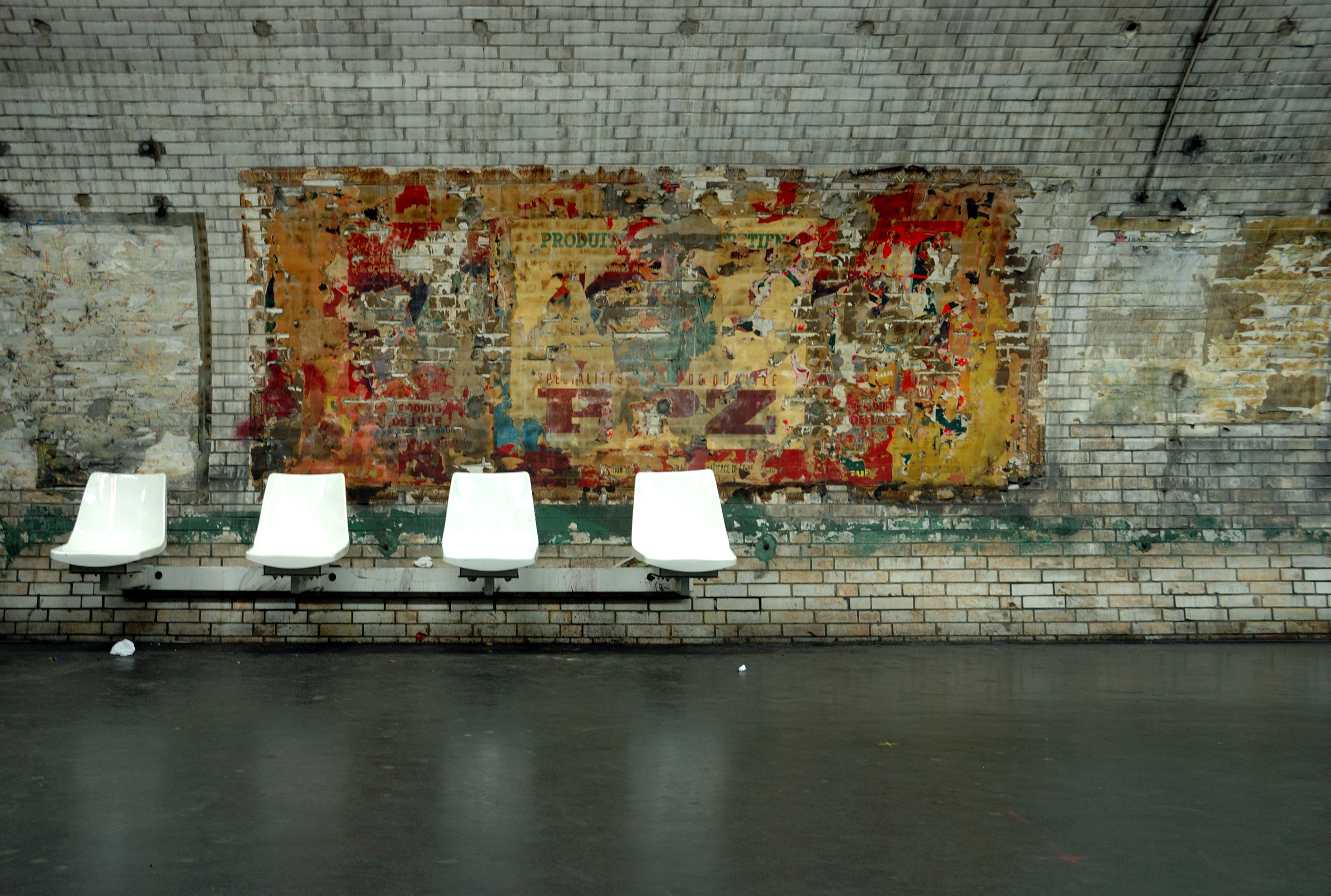 The Porte de Vincennes station of the Paris Métro during its restoration.